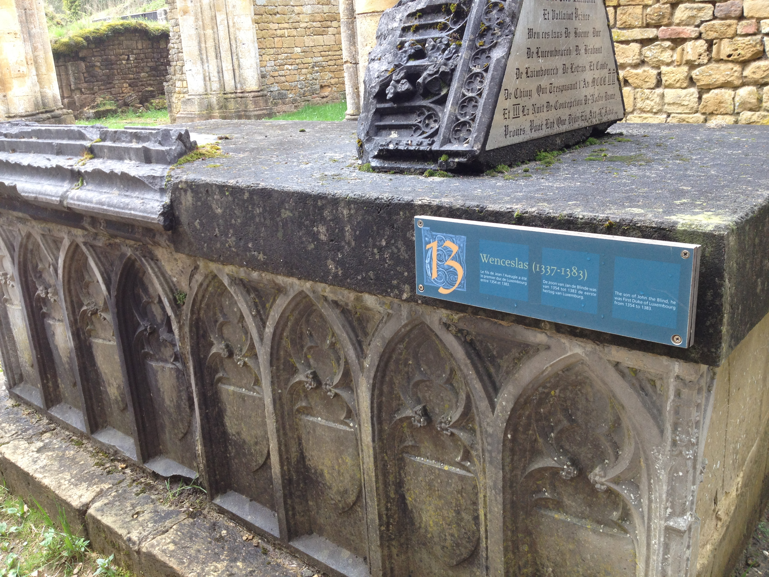 Burial crypt of the first Duke of Luxembourg located in Abbaye d'Orval, Belgium.